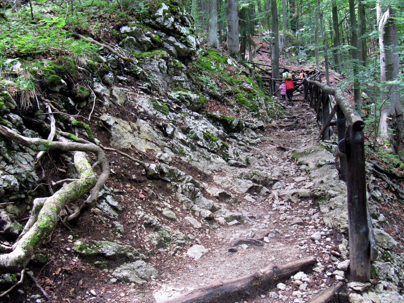 access to Harmanecká Cave